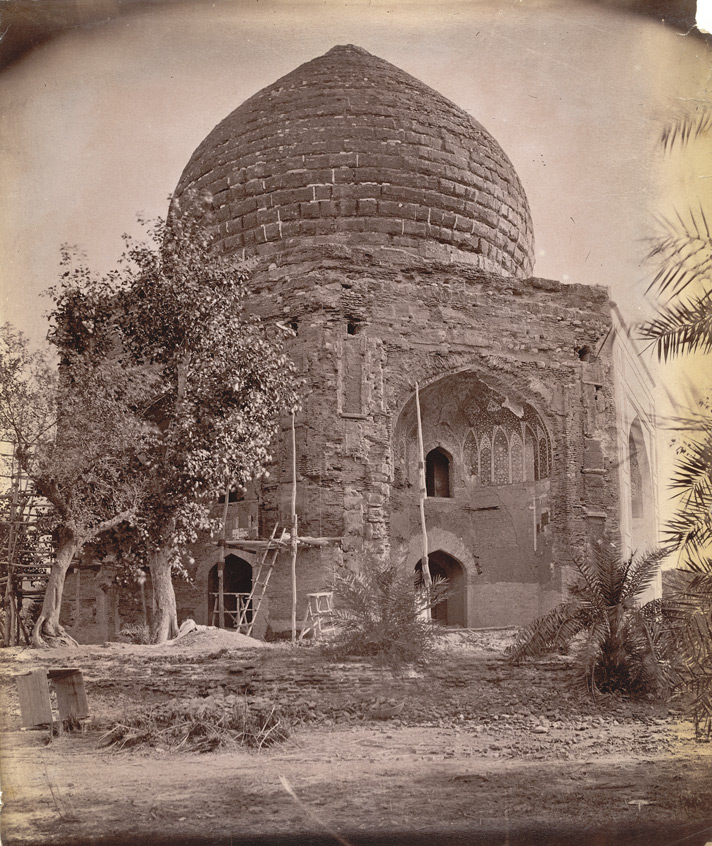 Asif Khan's Tomb taken by Henry Hardy Cole in 1880